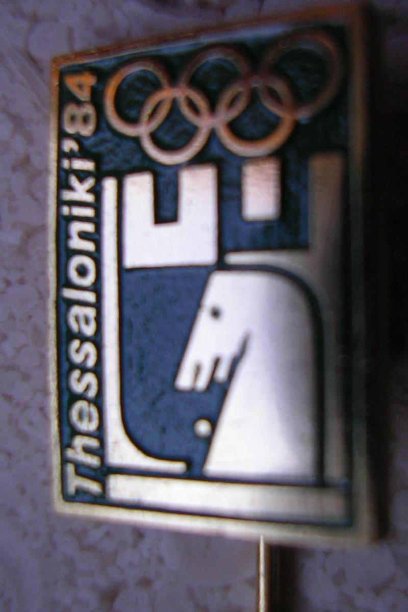 pin Thessaloniki '84, Chess Olympiad 1984, Photographer Gerhard Hund.